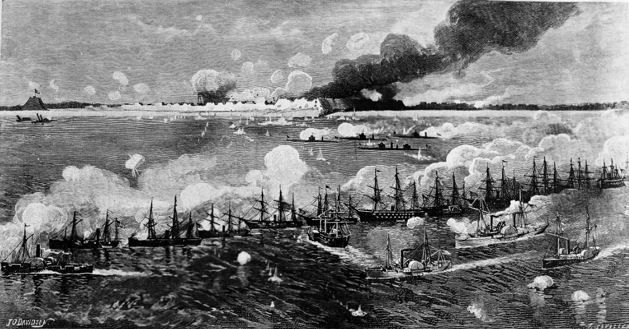 "The Bombardment of Fort Fisher, January 15, 1865" Ships of the North Atlantic Blockading Squadron bombarding Fort Fisher, North Carolina, prior to the ground assault that captured the fortification. Identifiable ships include: USS Monadnock (twin-turret monitor in the right center); USS Vanderbilt (grey two-stack side-wheel steamer in right foreground); and USS New Ironsides (at the right end of the main battle line).